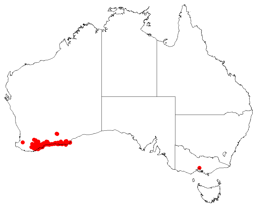 Bossiaea preissii Occurrence data downloaded 11 September 2018 from AVH